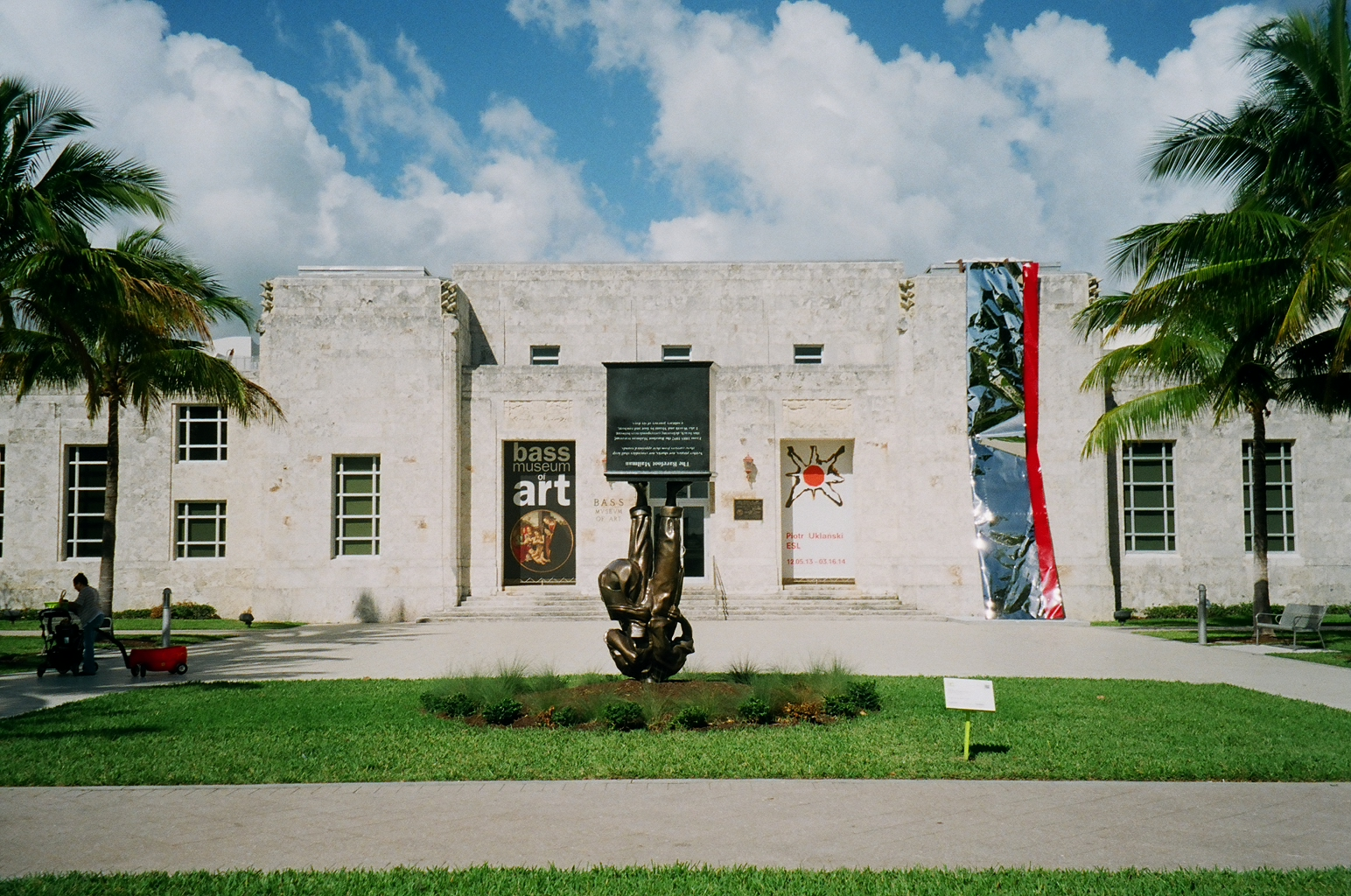 Olympus Infinity Zoom 70 camera and Fuji 200 film.